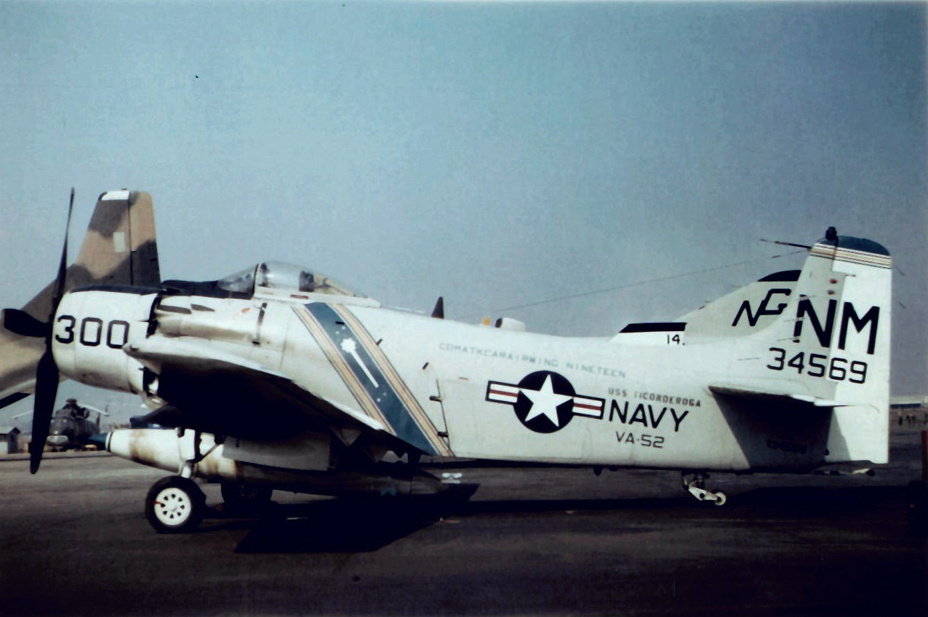 A U.S. Navy Douglas A-1H Skyraider (BuNo 134569) from attack squadron VA-52 Knightriders. VA-52 was assigned to Attack Carrier Air Wing 19 (CVW-19) aboard the aircraft carrier USS Ticonderoga (CVA-14) for a deployment to Vietnam from 19 October 1966 to 29 May 1967. This aircraft was also the personal aircraft of the air group commander (CAG), Cdr. Bill Phillips.